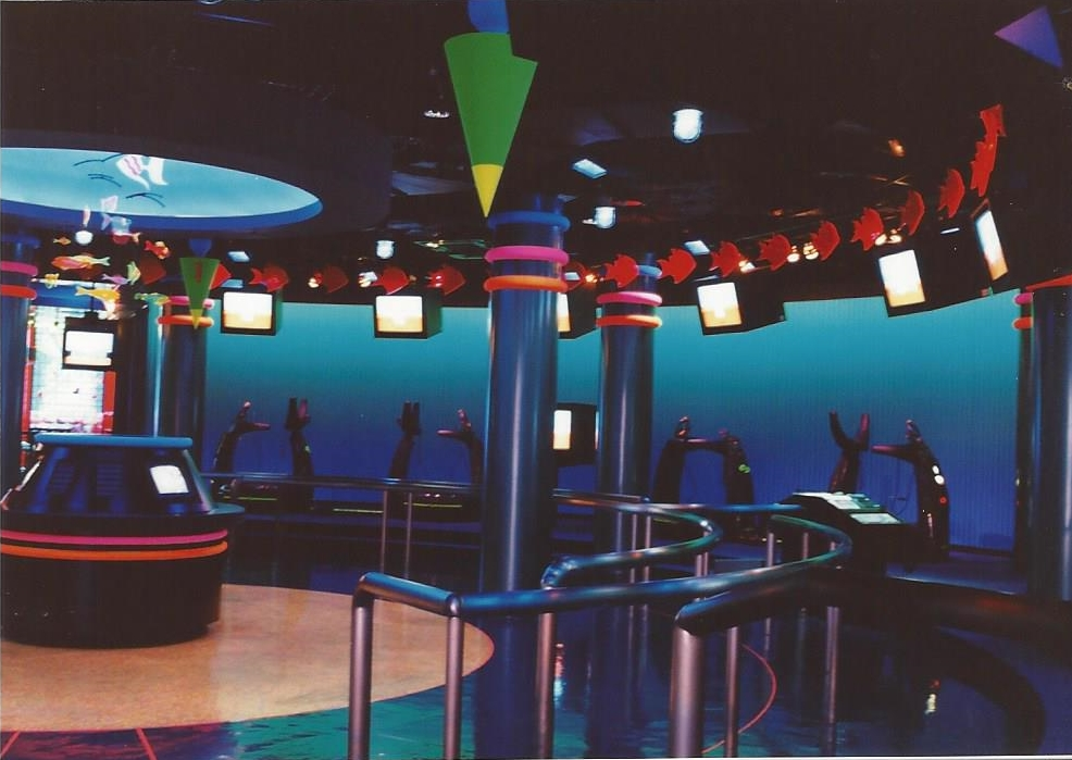 View of the Virtuality Attraction (interior) inside the Italian Village at Porto Europa, Wakayama Marina City